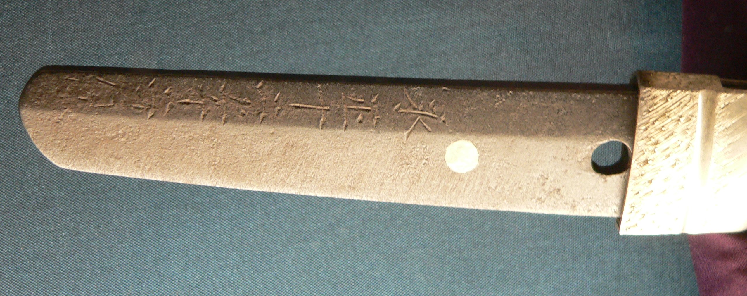 Tachi forged by Bishu Osafune Sukesada, 12th year of the Eishô era, a day in February (1515, Muromachi). Saya in aogai-nashiji laquer, gold decorations. Mounting from 1907, last polish in 1987. Gallery Dutta Geneve